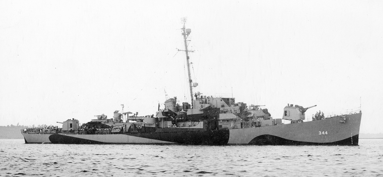 The U.S. Navy destroyer escort USS Oberrender (DE-344) off Boston, Massachusetts (USA), on 15 July 1944. She is painted in Camouflage Measure 32, Design 22D.